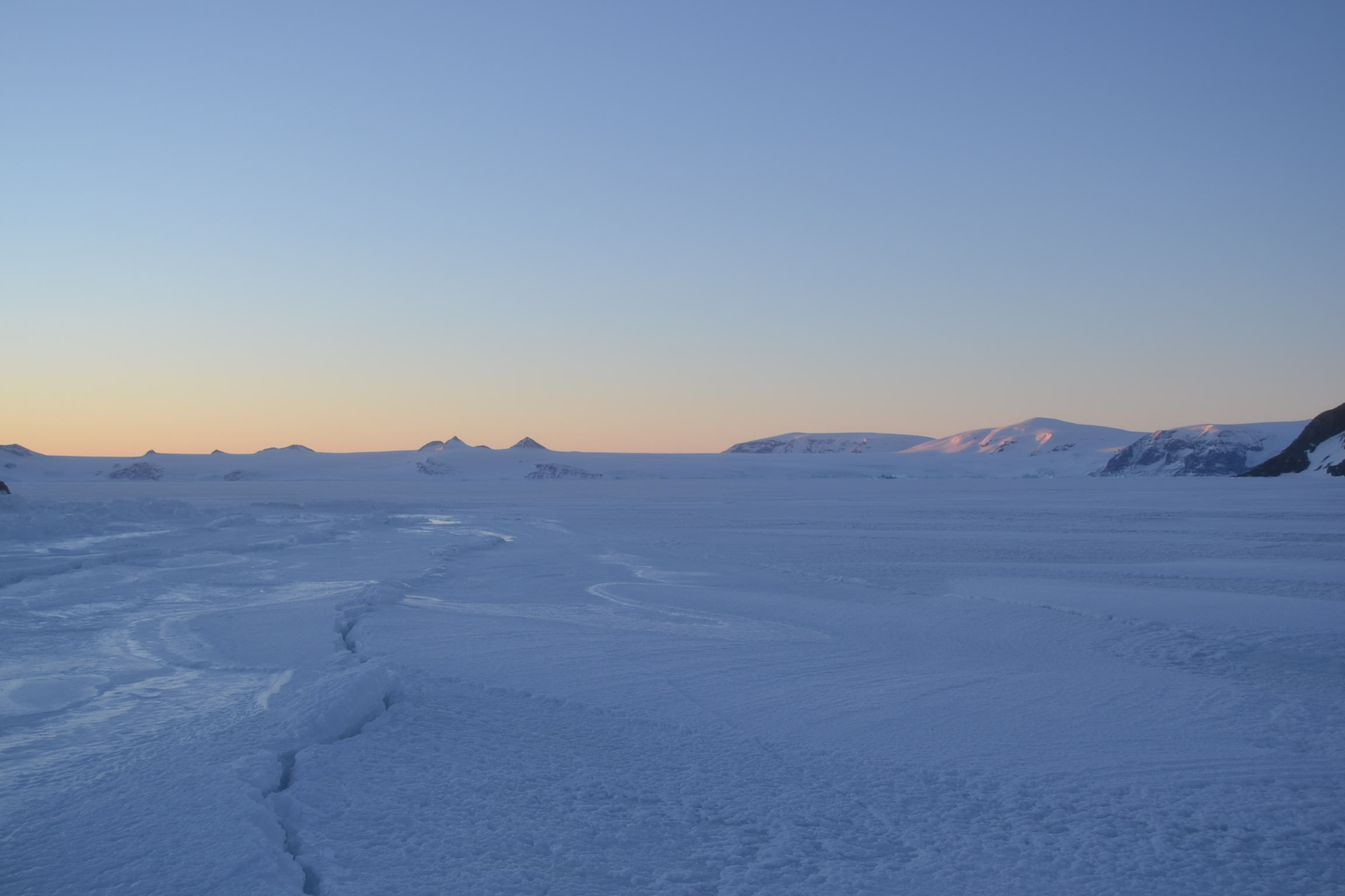 State of Bahia Duse at the foot of the Jorge Boonen Rivera Refuge